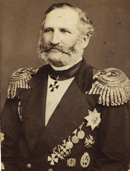 Arkas, Nikolay Andreyevich.